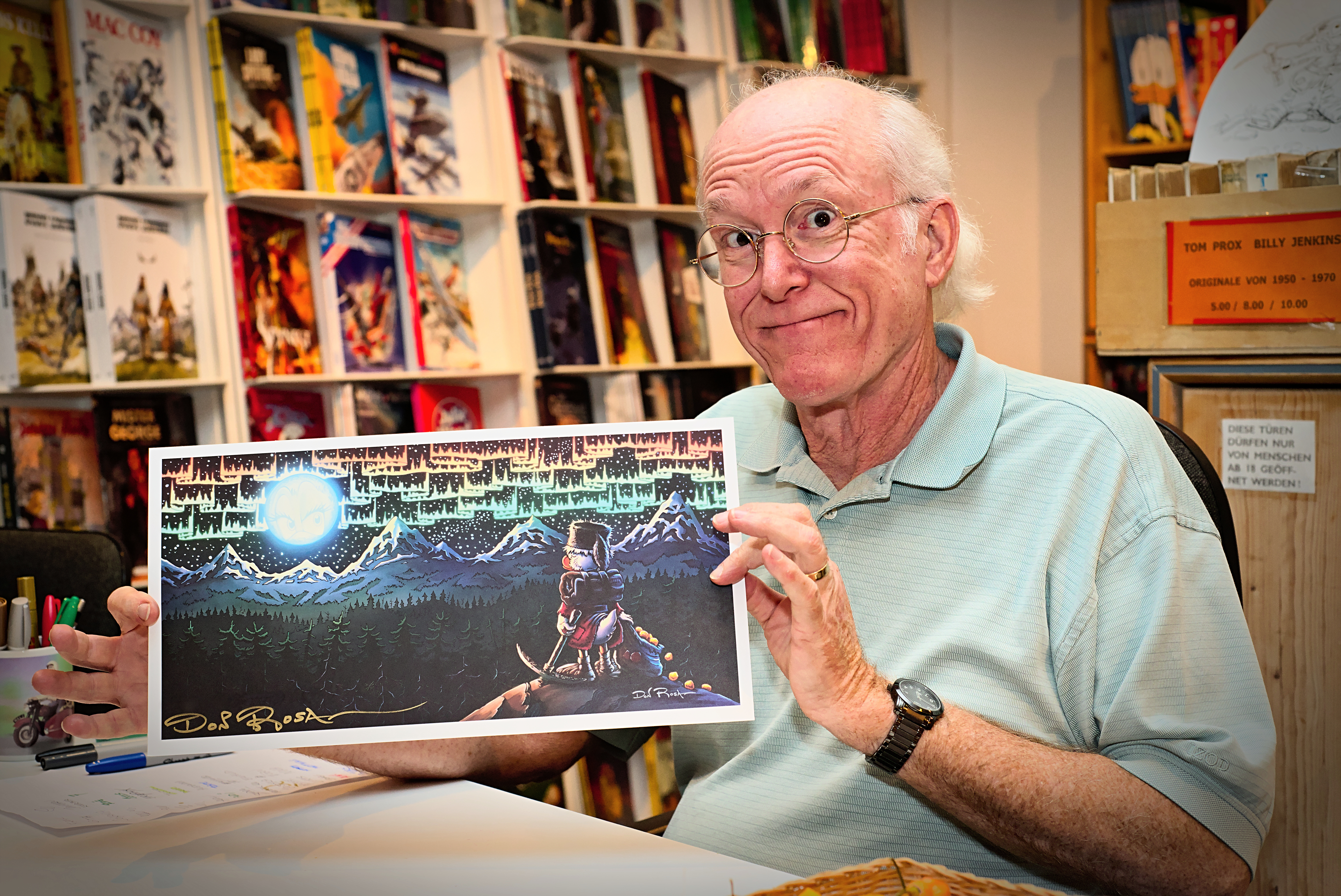 The comic writer and artist Don Rosa at a book signing in the comic book store "Ninth Art" in Osnabrück, Germany.